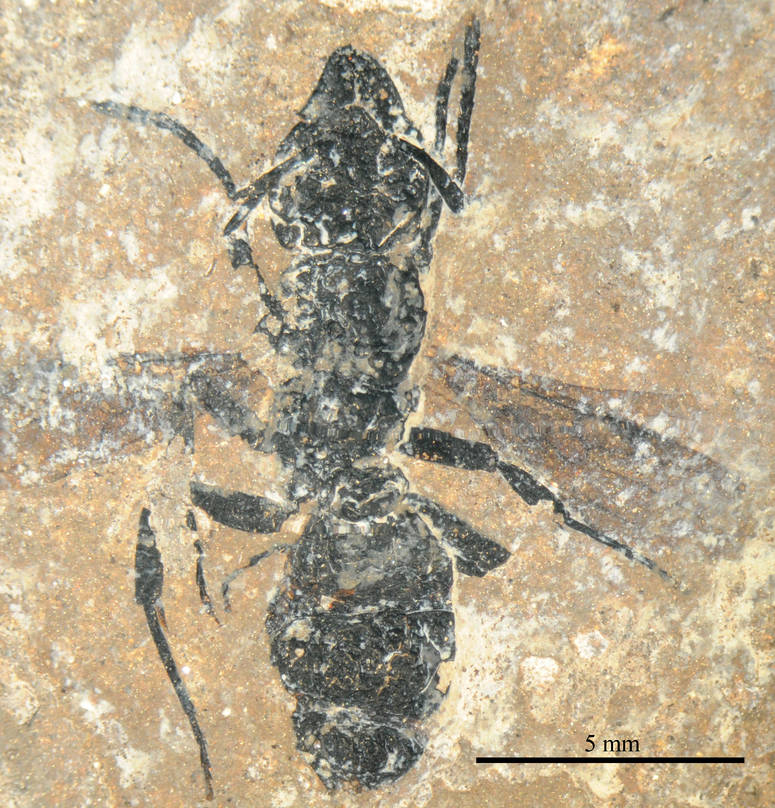 Dorsal view of the Protopone germanica holotype specimen. Number SMFMEI10841